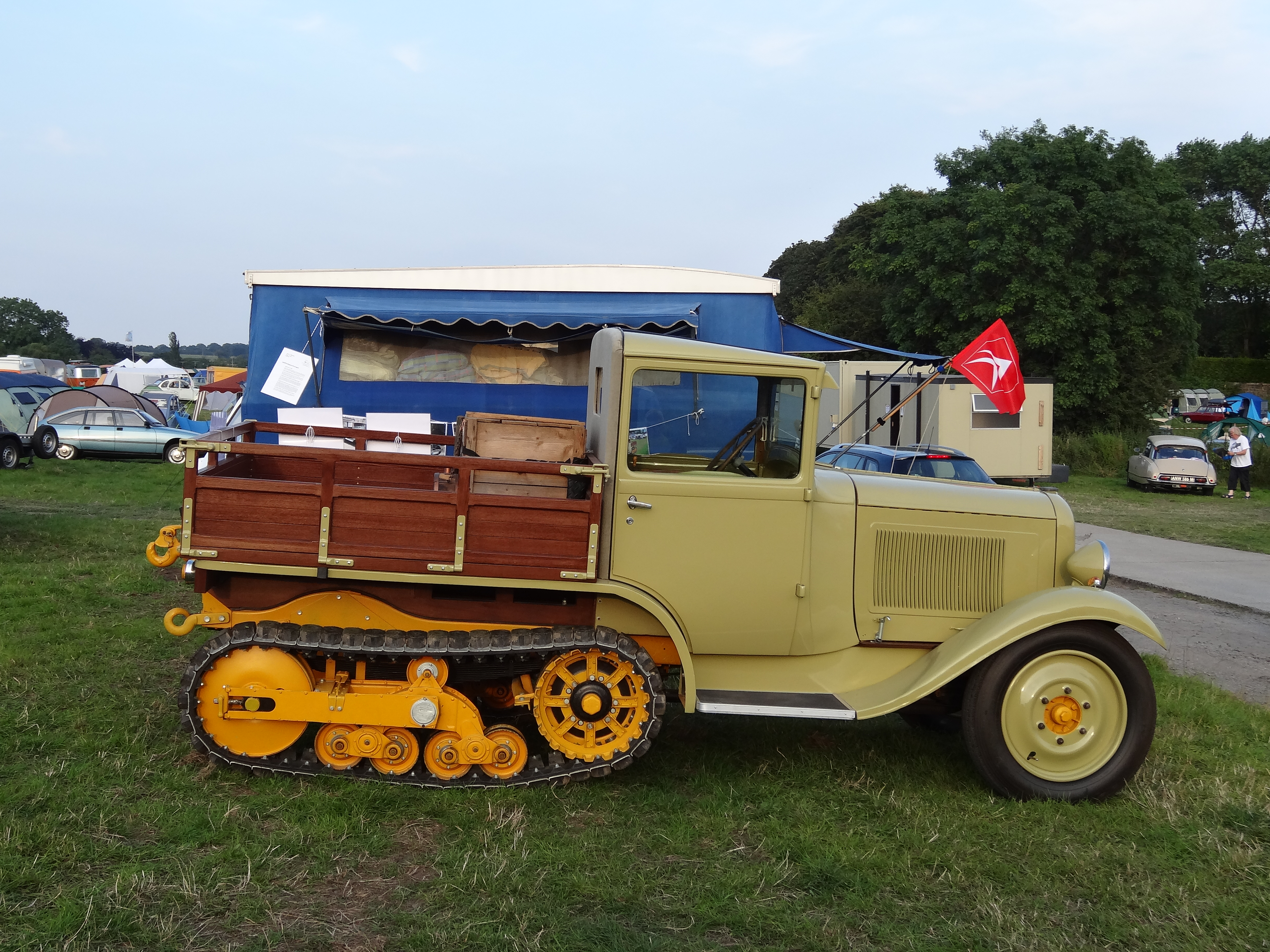 A 1933 C4 based Citroën P17 C Kégresse at the 2012 International Citroën Car Clubs Rally in Harrogate, North Yorkshire.